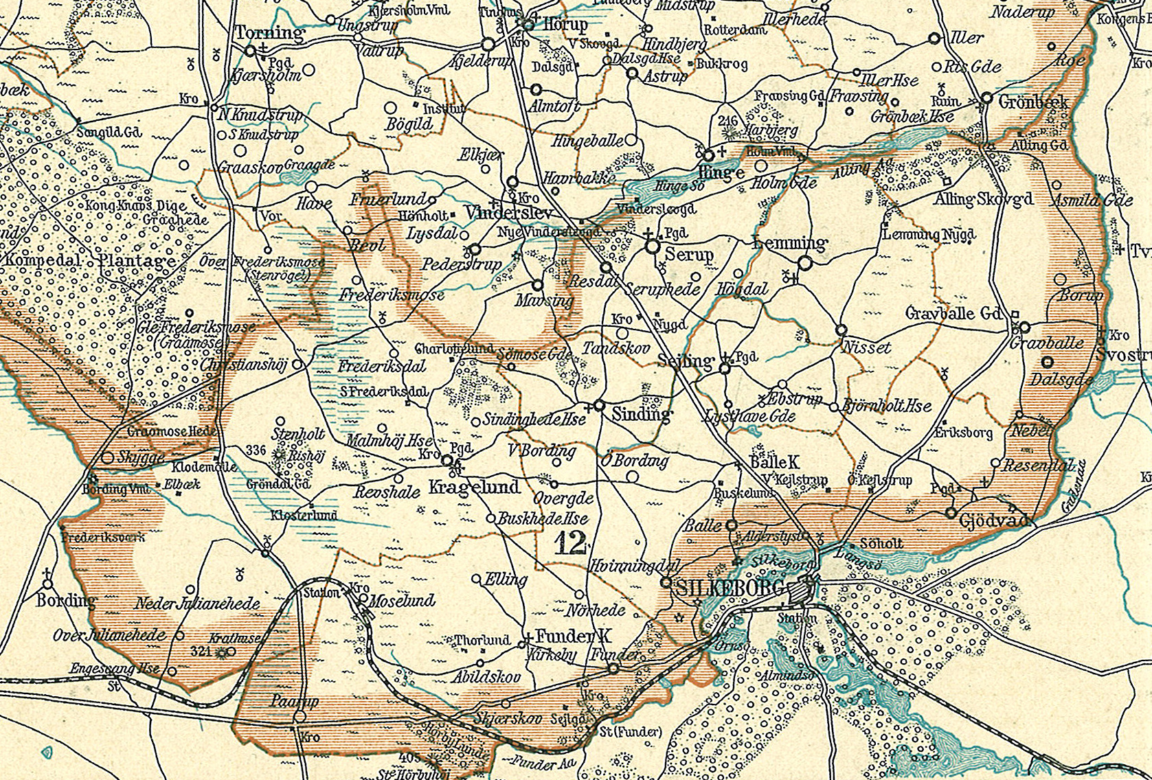 Map of the eastern part of Viborg County in Denmark